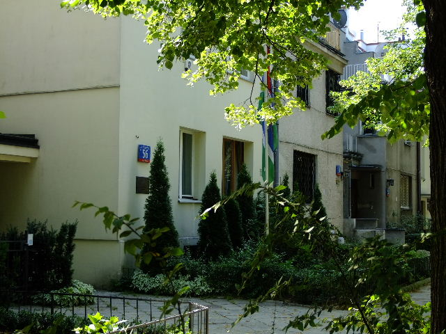 Consulate of the Republic of Gambia in Warsaw